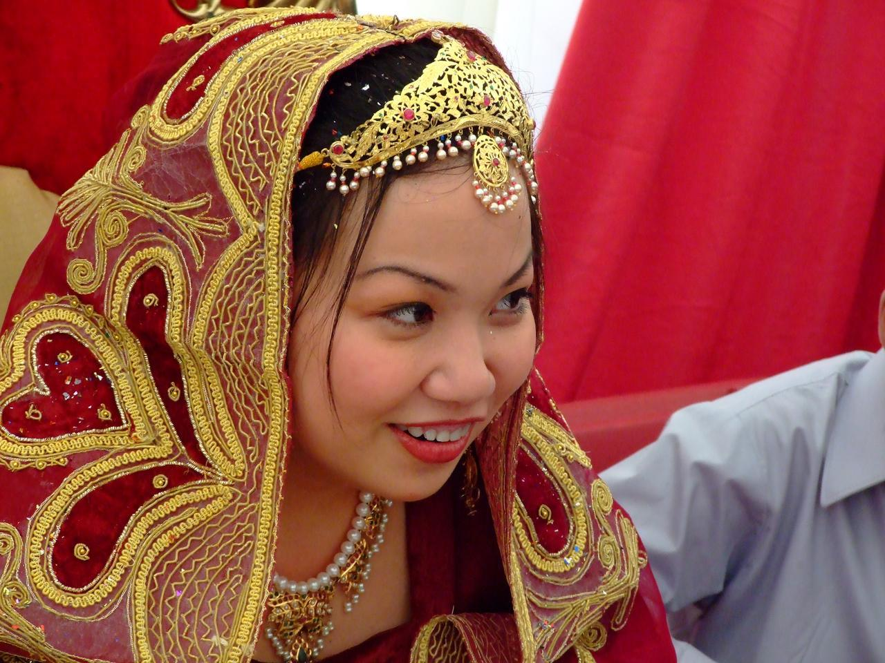 Closeup of the bride wearing typical South Asian red head covering and jewellery.